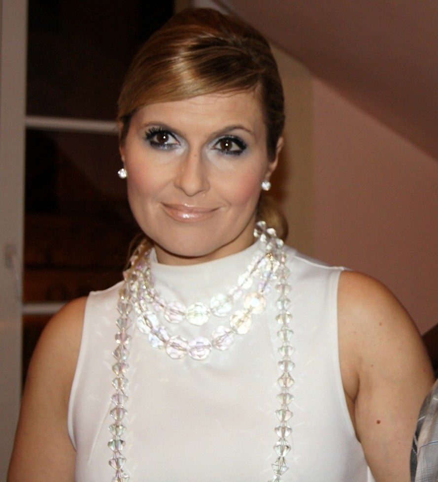 Katarzyna Skrzynecka, Polish actress, singer and presenter